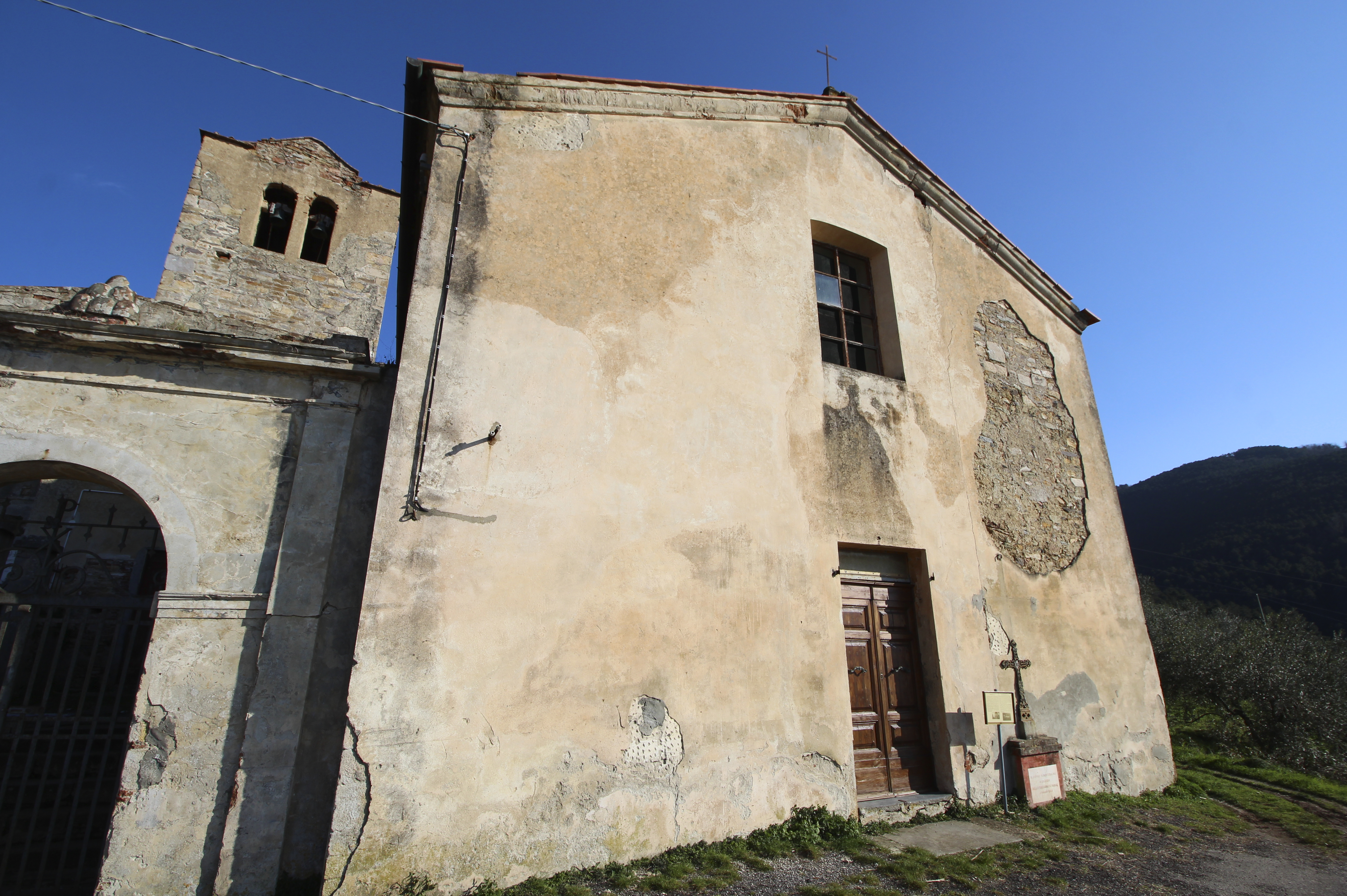 San Martino, Church in Montemagno, hamlet of Calci, Province of Pisa, Tuscany, Italy